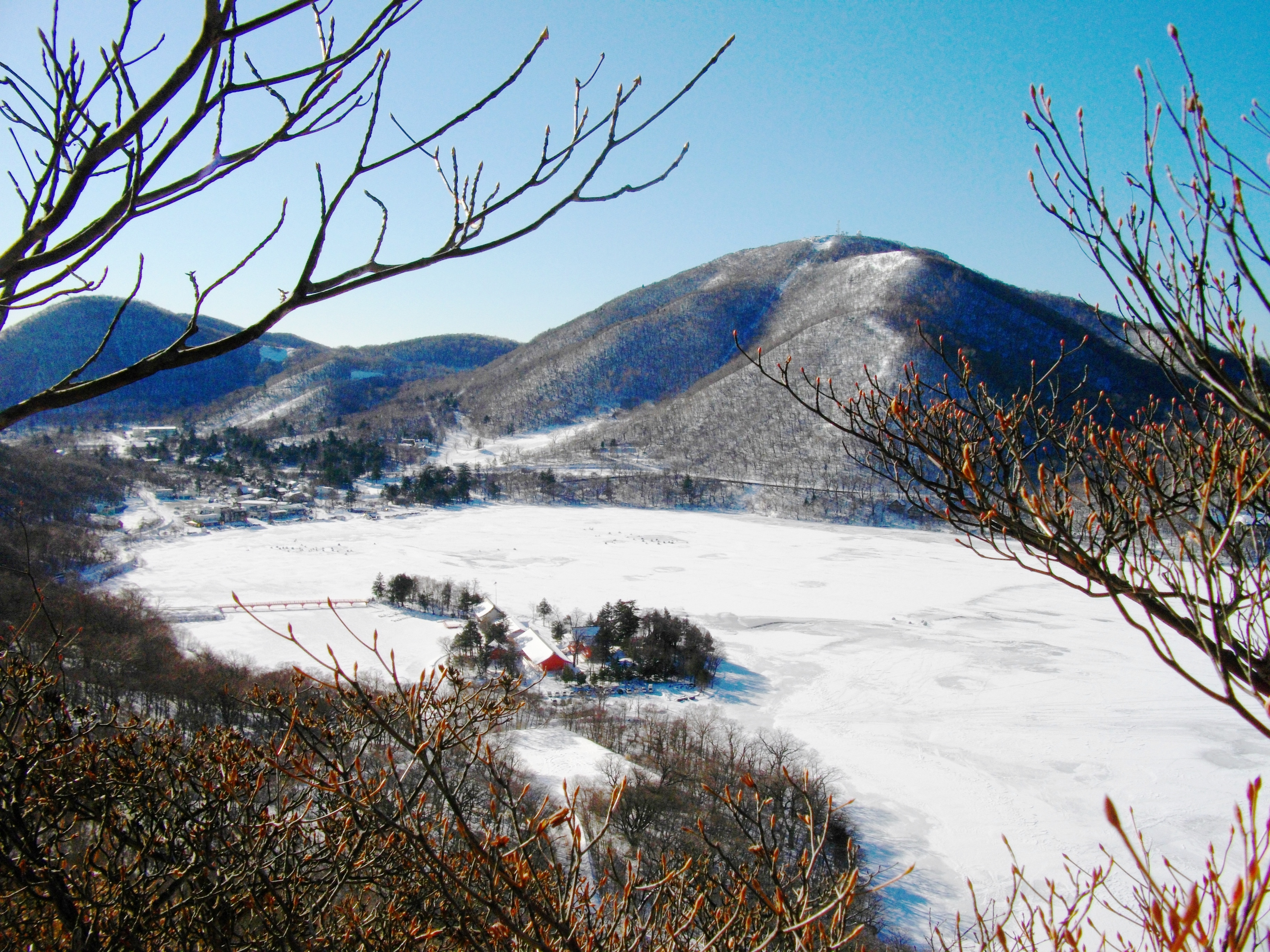 Oono Lake, a cardera lake, and Mount Jizo, from the middle of Mount Kurobi of Akagi Mountains, Gunma, Japan.